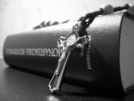 Catholic Book of the Hours with a Rosary